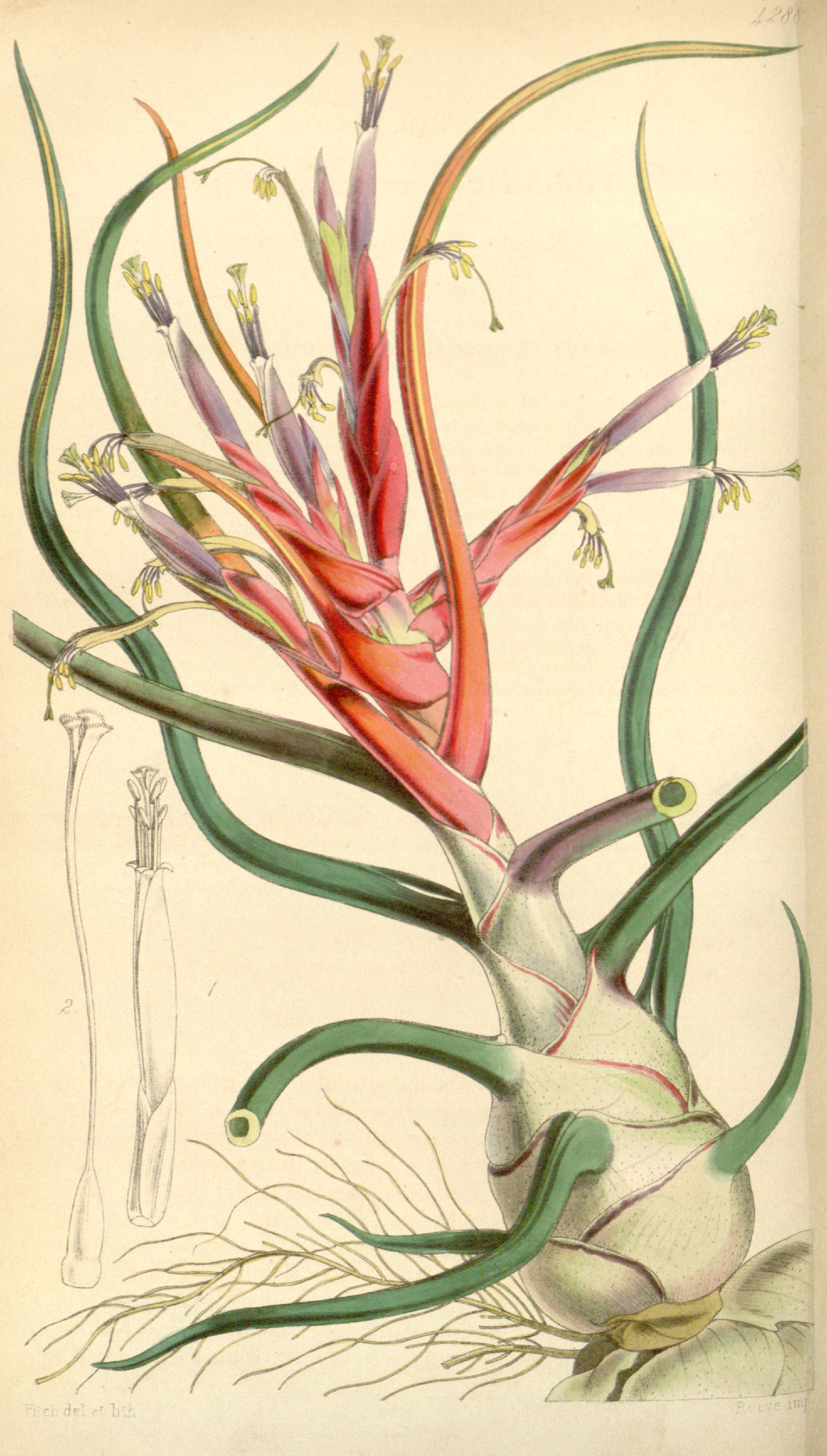 Illustration of Tillandsia bulbosa (as Tillandsia bulbosa var. picta))